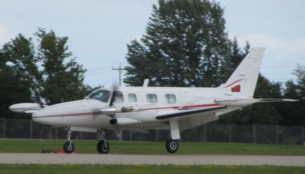 Piper PA-31T Cheyenne